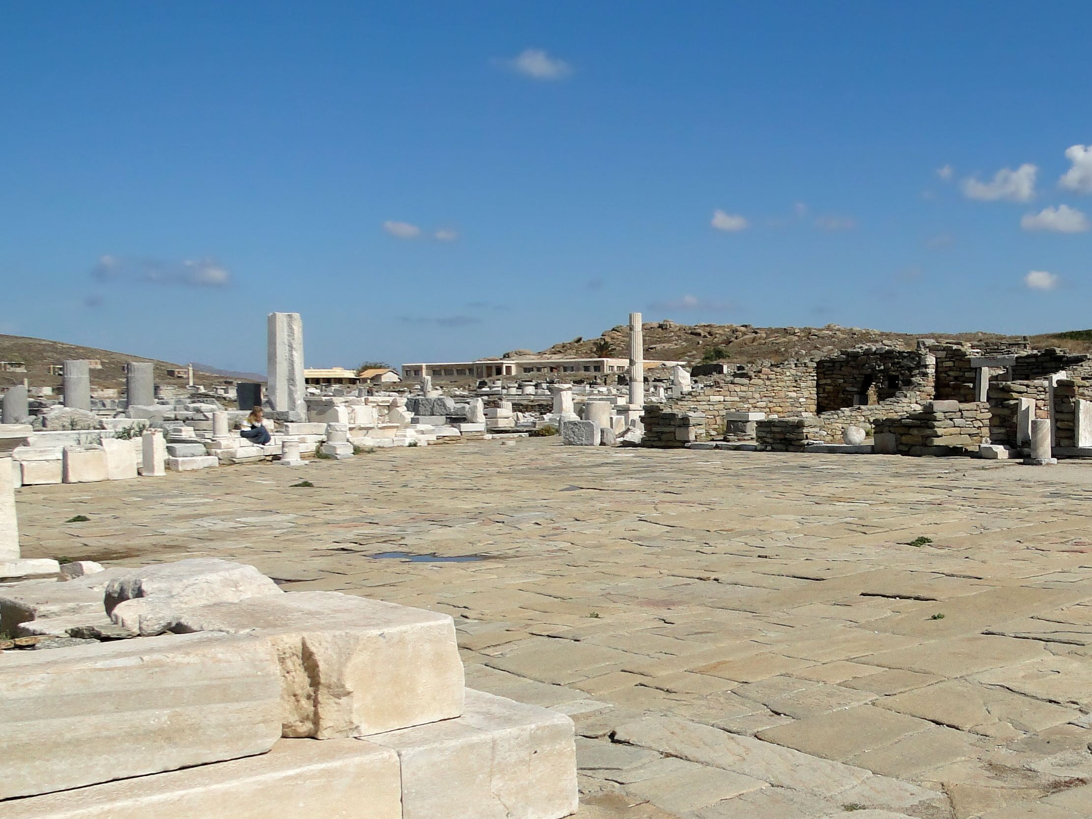 Agora of the Competaliasts in Delos, Greece